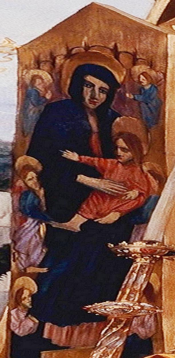 Detail from Frederic Leighton's history painting, rectified